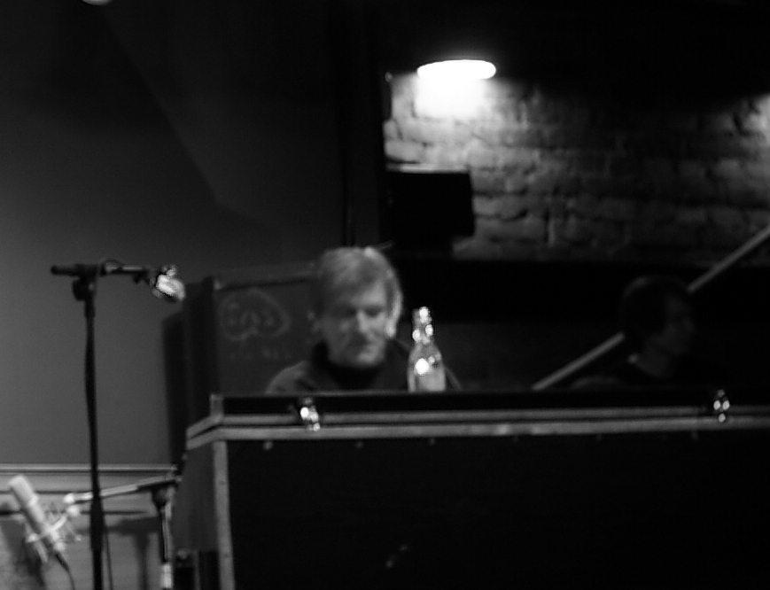 Bo Hansson on Hammond. Most certainly from a gig with Dubbelorganisterna. Jazzclub Fasching, 2007.